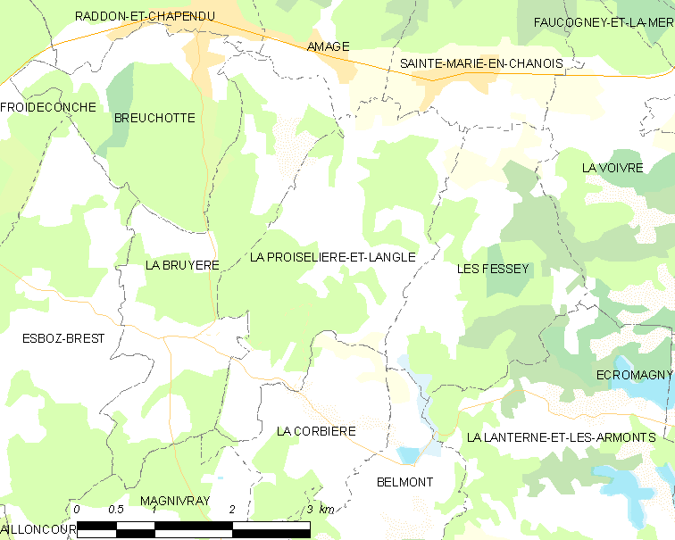 Map of French municipality